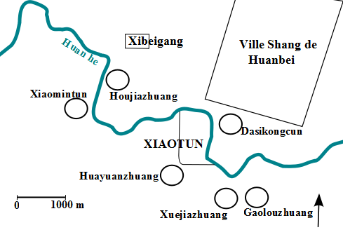 Schematic map of the main archaeological sites of the Shang era located in the vicinity of Anyang, ancient Yinxu. Sources : D. N. Keightley, « The Shang: China's First Historical Dynasty », in M. Loeve and E. L. Shaughnessy (dir.), The Cambridge History of Ancient China, From the Origins of Civilization to 221 BC, Cambridge, 1999, p. 276 et J. Yuan and R. Flad, « New zooarchaeological evidence for changes in Shang Dynasty animal sacrifice », in Journal of Anthropological Archaeology 24/3, 2005, p. 262.